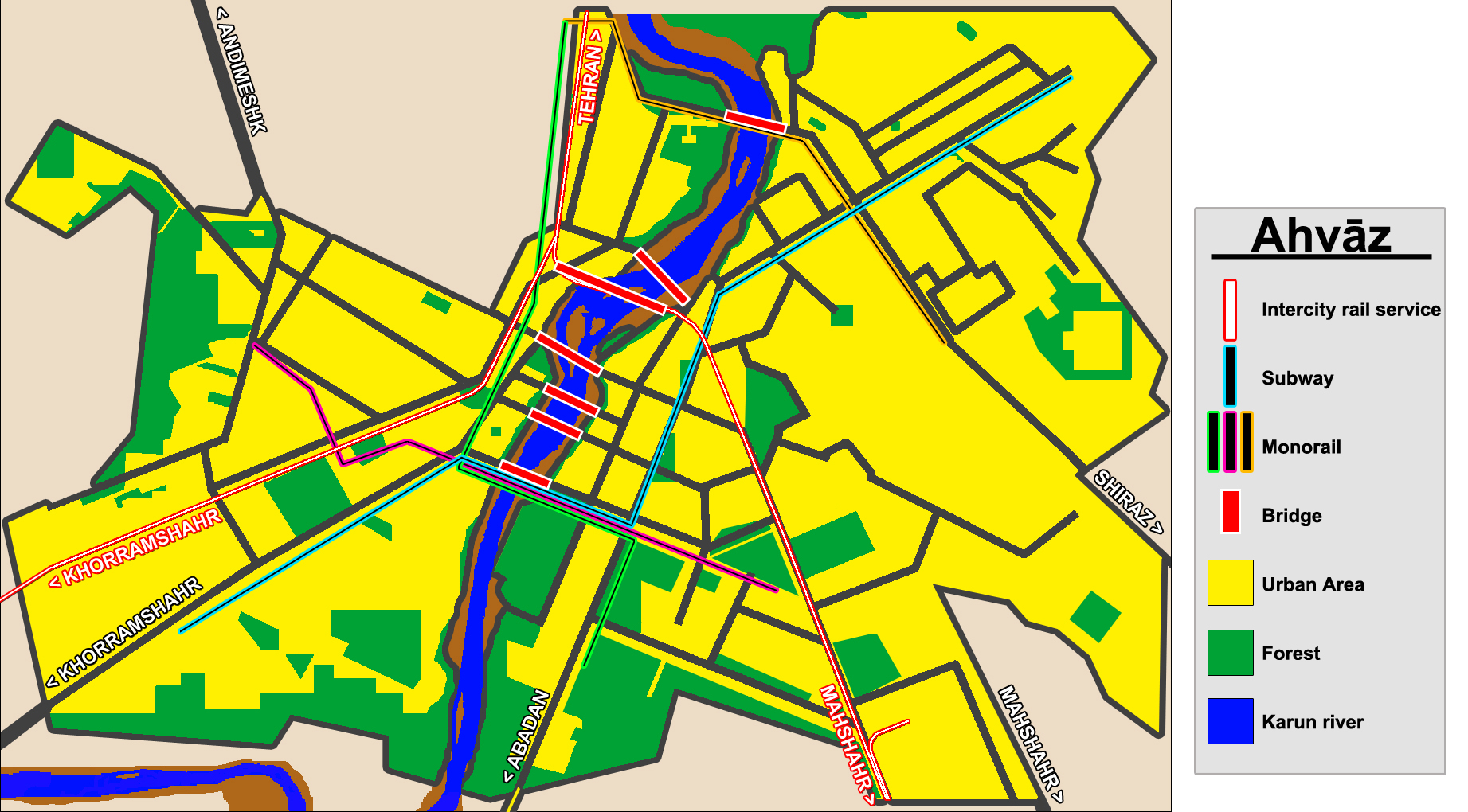 Map of the city of Ahvaz — located in Ahvaz County, Khuzestan Province, western Iran.